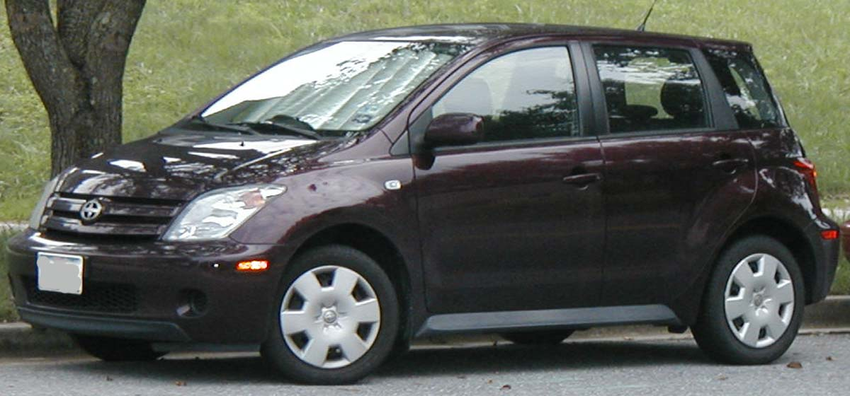 2004-2005 Scion xA photographed in USA.